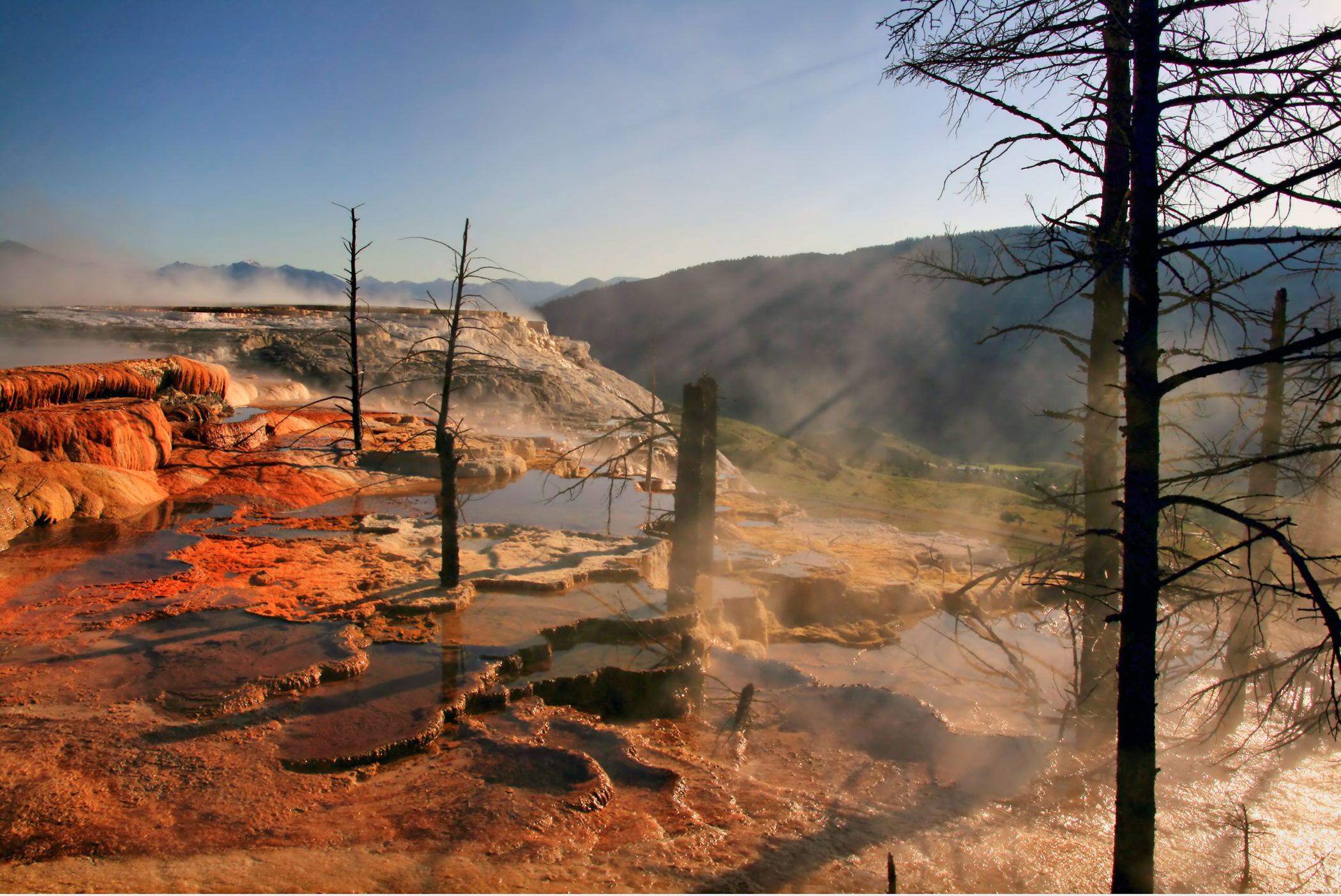 Dead trees in the terraces of Mammoth Hot Springs, Yellowstone National Park grew during inactivity of the mineral-rich springs, and were killed when calcium carbonate carried by spring water clogged the vascular systems of the trees. Crepuscular rays are seen at the steam getting out of hot springs.